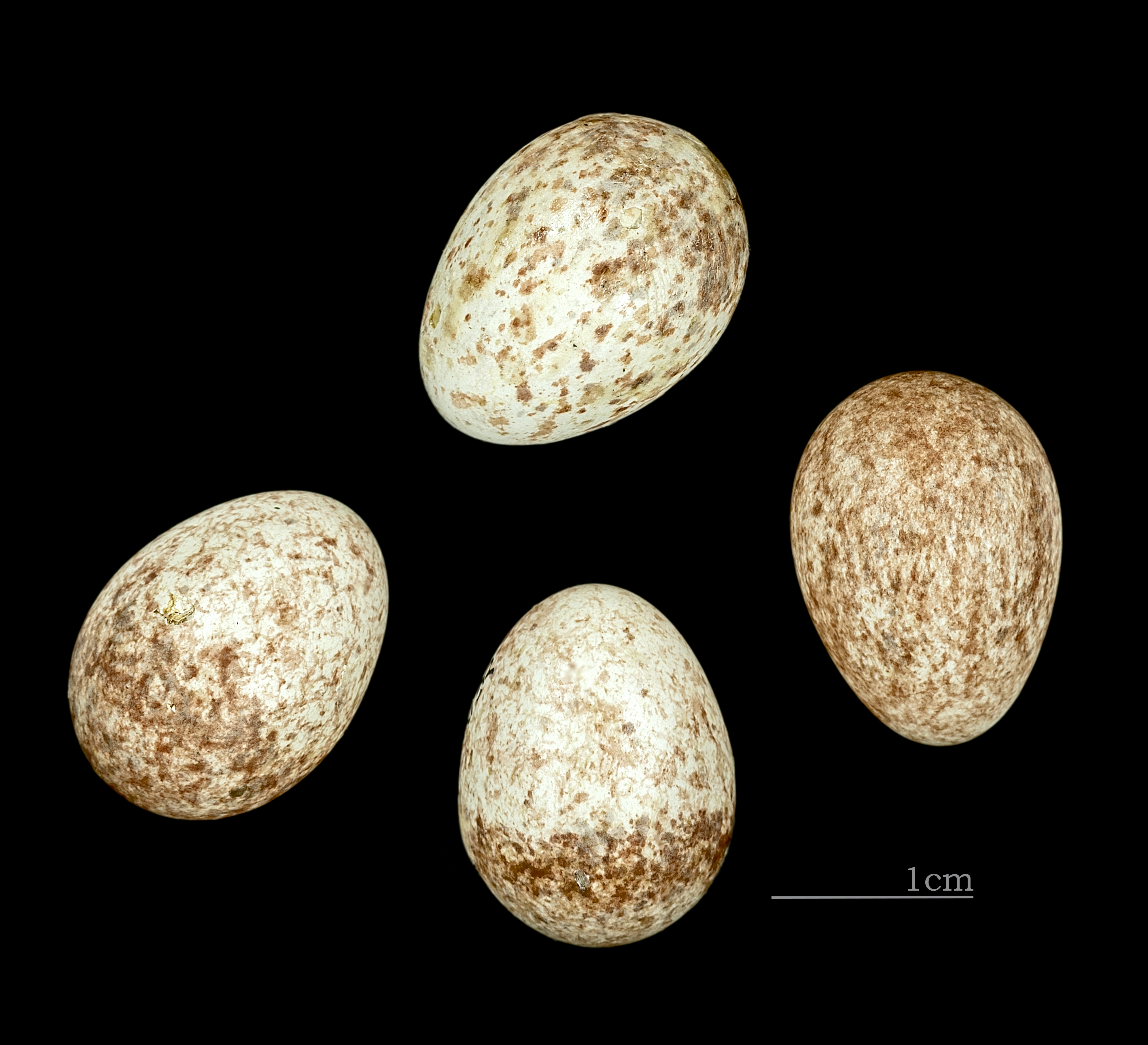 Egg of Bananaquit Collection of Jacques Perrin de Brichambaut.